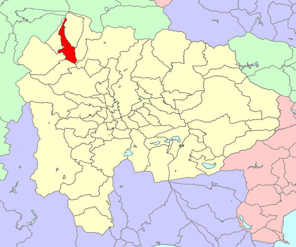 The former town of Nagasaka in Yamanashi Prefecture. Merged to form Hokuto on November 1, 2004